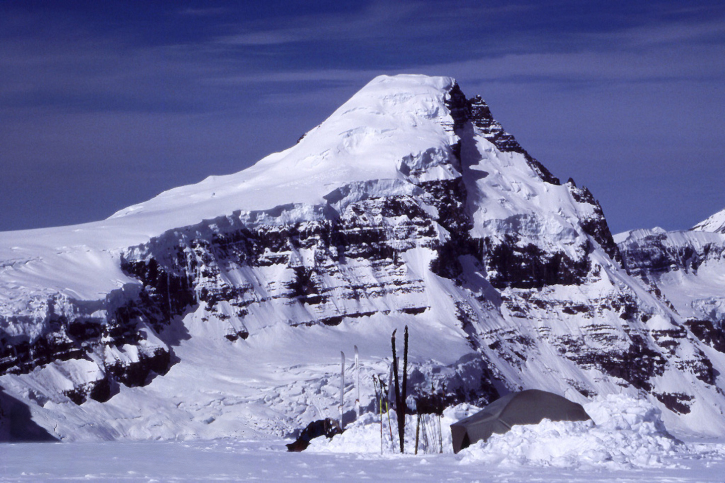 Mt. Columbia as seen from a good Columbia Icefield bivy site for The Twins (South Twin, North Twin and Twins Tower), Snow Dome, Mt. Kitchener and the Stutfields (East and West). Typically and true in this case, someone had previously built the wind wall and all we had to do was shovel out the newer snow for our use.